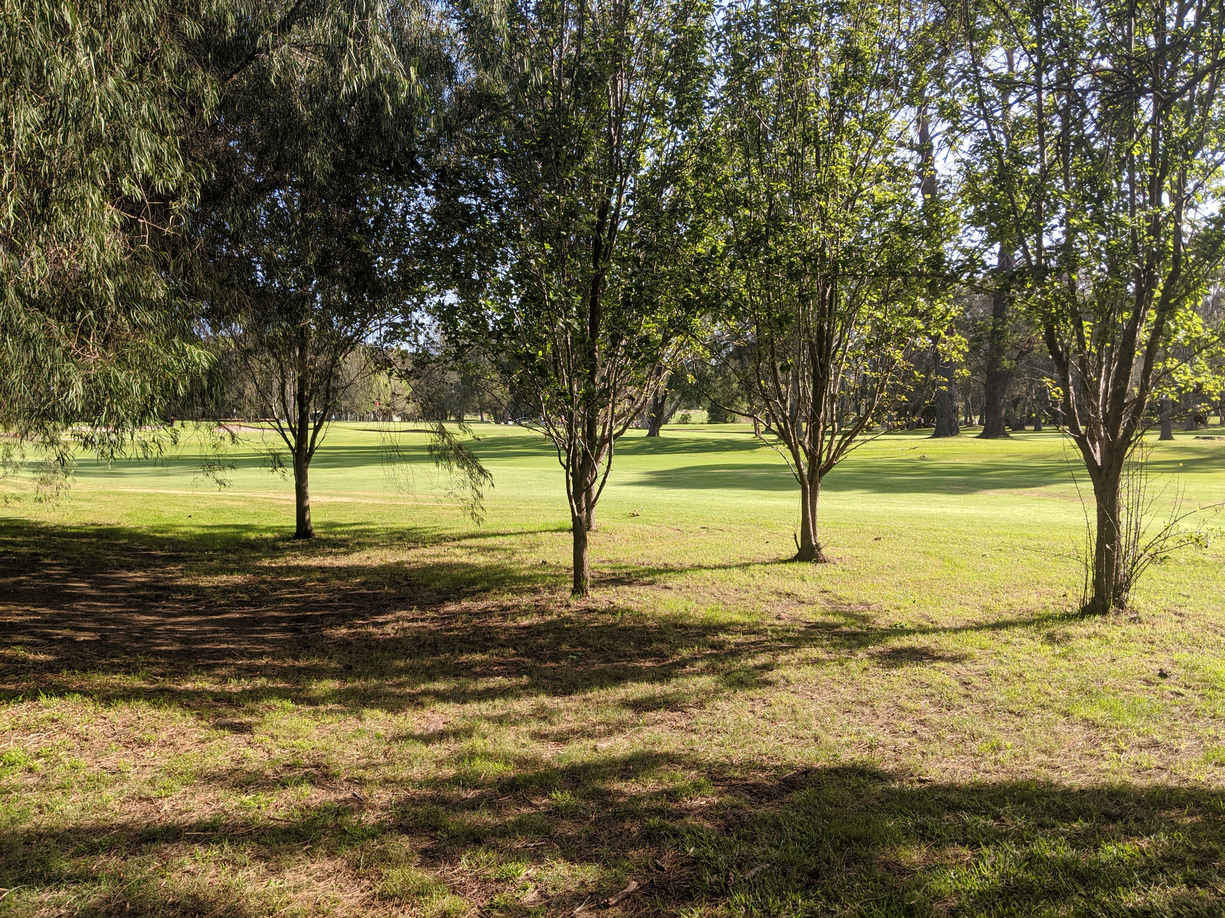 Catalina Country Club, Catalina, New South Wales, 2020